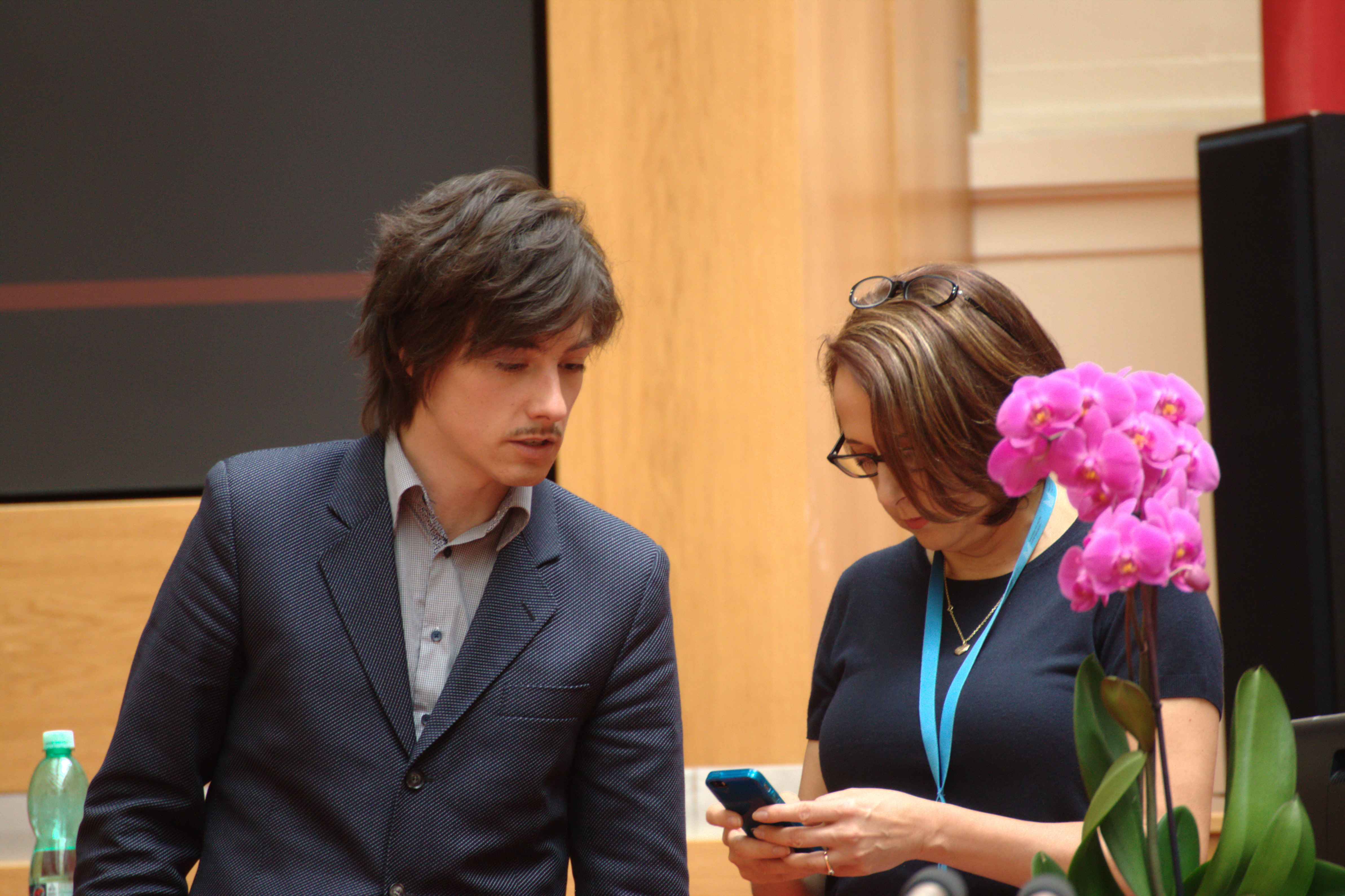 Adriana Krnáčová and Matěj Stropnický during the 7th Plenary session of Prauge deputees, May 2015